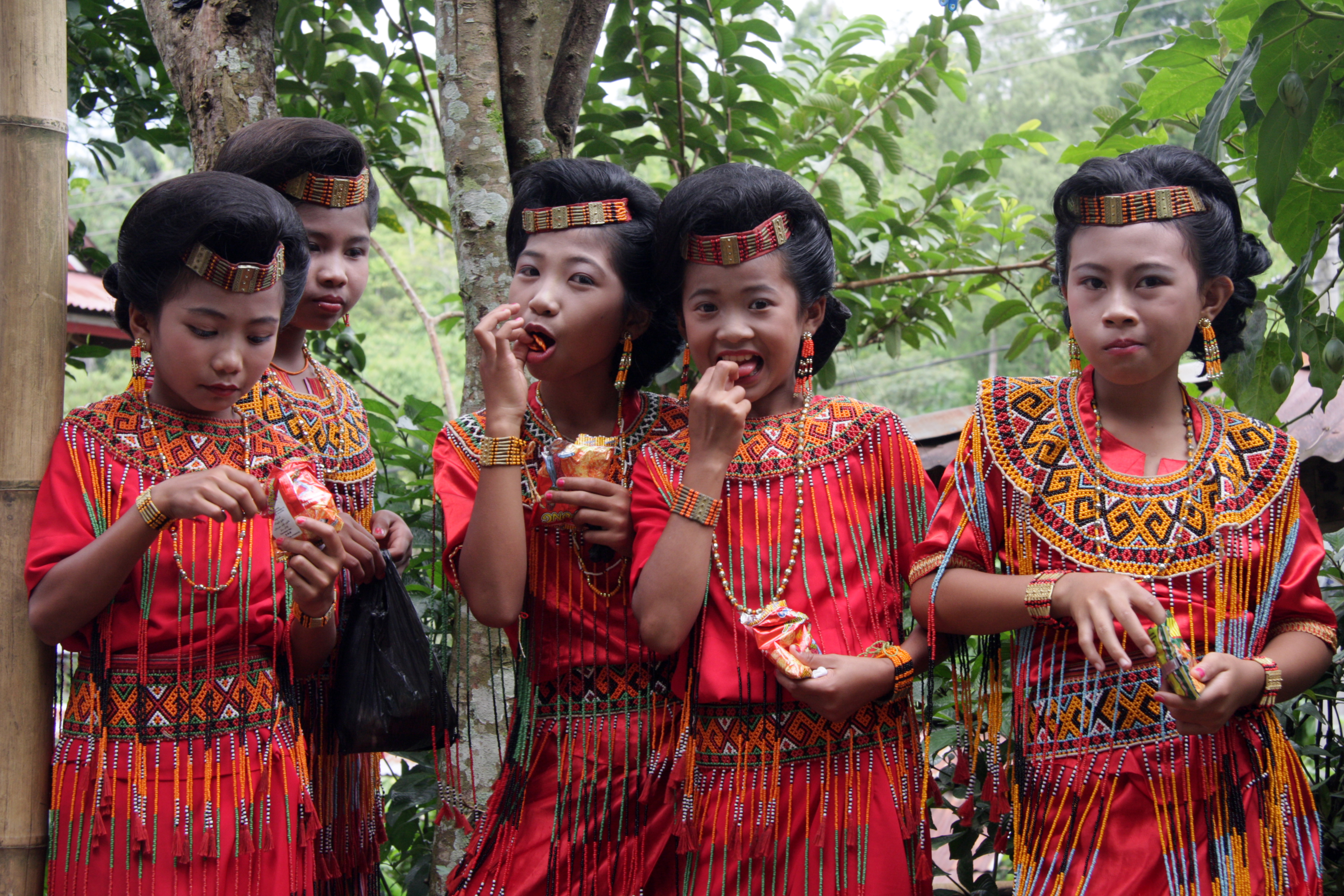 Young Torajan girls welcoming guests to a wedding on the island of Sulawesy